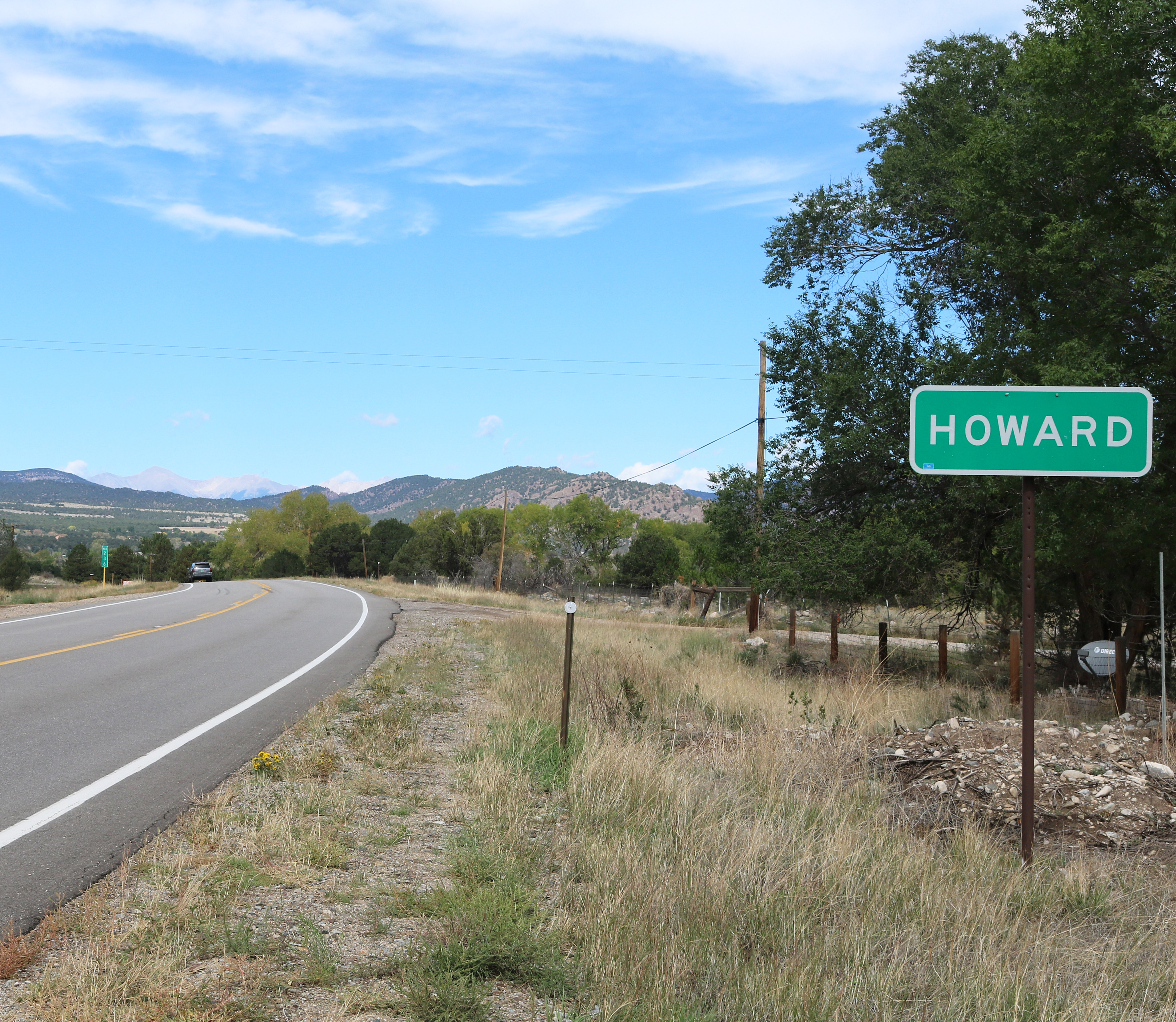 Howard, a census-designated place in Fremont County, Colorado. The highway is U.S. Highway 50. The view is towards the west.